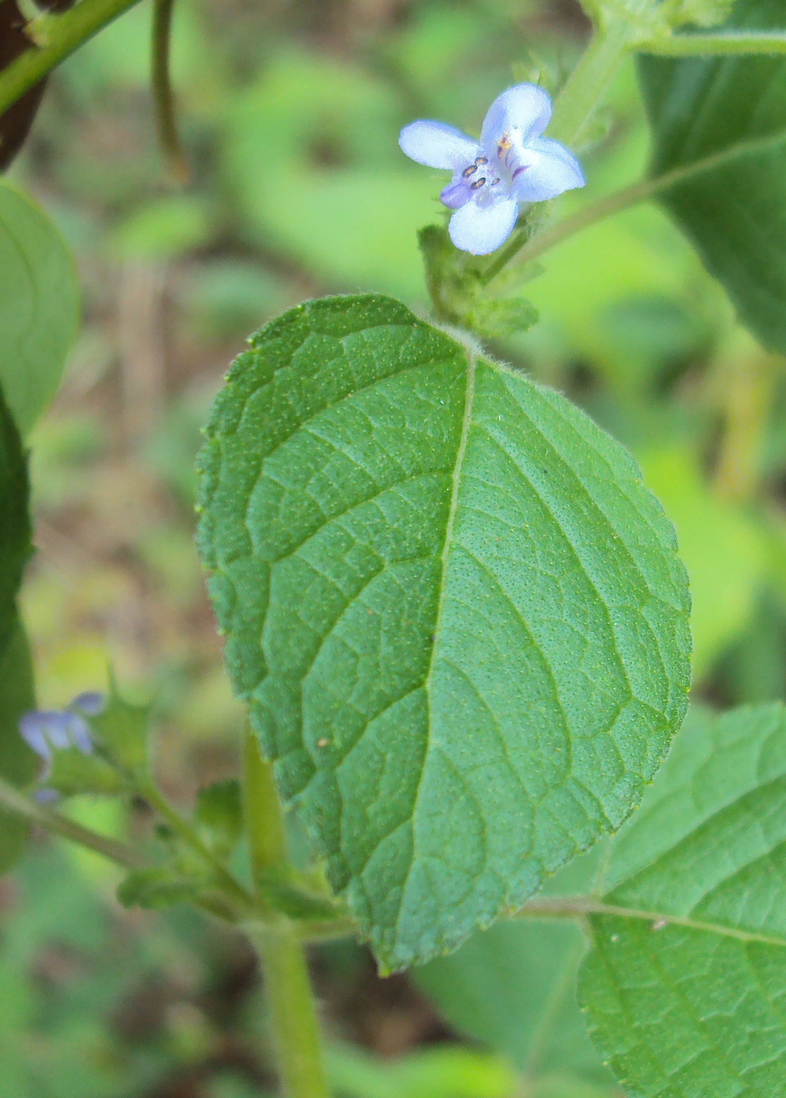 Hyptis suaveolens